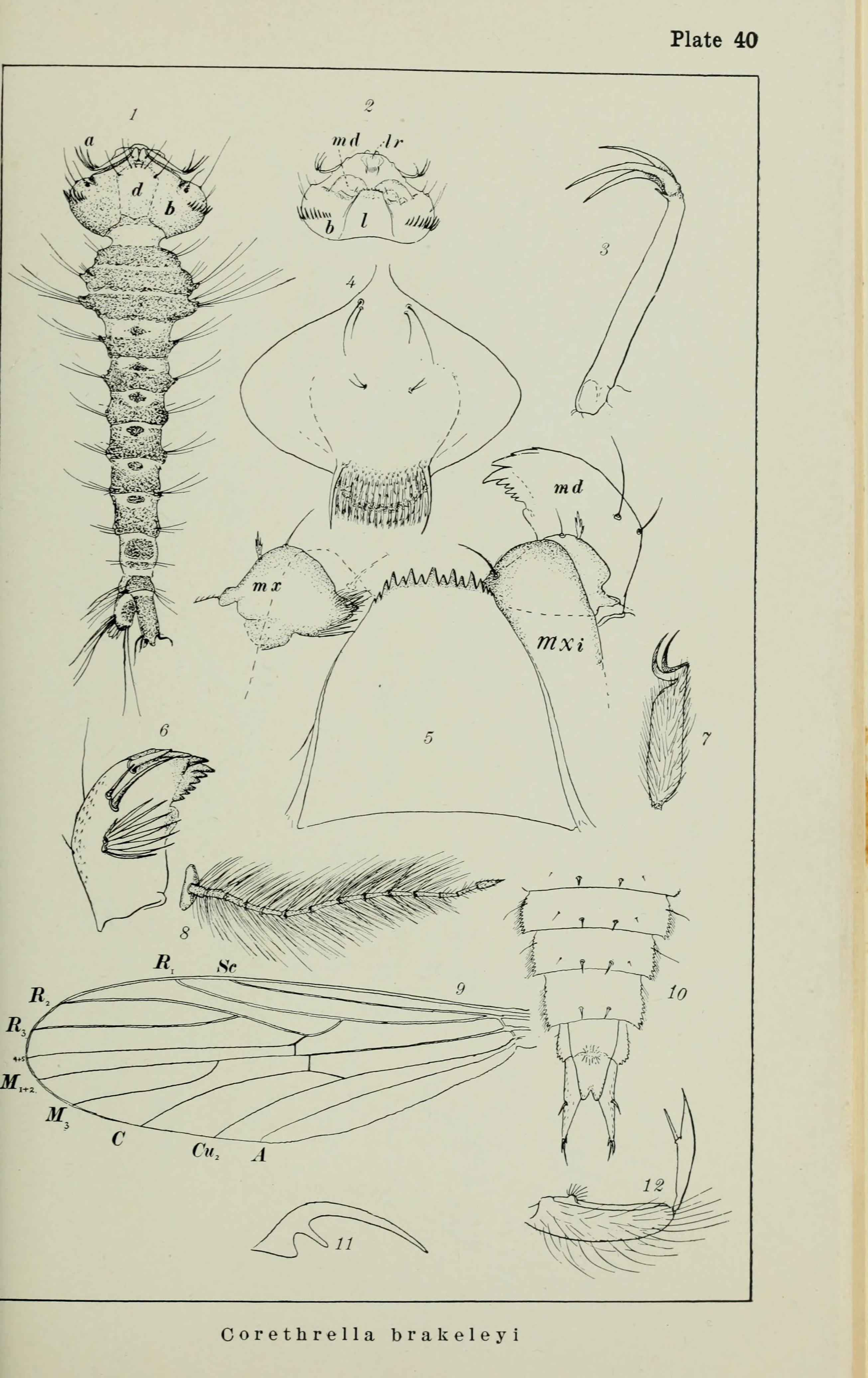 Title: Aquatic insects in New York State Year: 1903 (1900s) Authors: Needham, James G. (James George), 1868-1956 Subjects: Insects; Aquatic insects Publisher: Albany : University of the State of New York Text Appearing Before Image: Plate 40 Text Appearing After Image: Corethrella brakeleyi